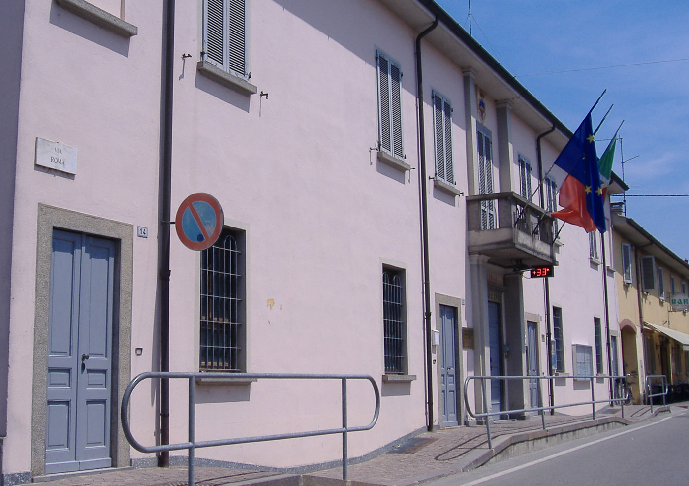 The Municipality Palace of Cavacurta, (LO), Italy